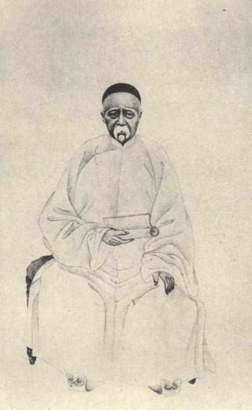 MIAO Quansun, scholar of the Qing Dynasty.